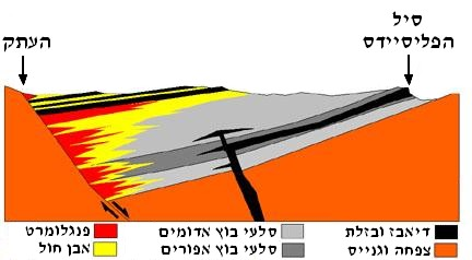 USGS cross-section of the Newark Basin.